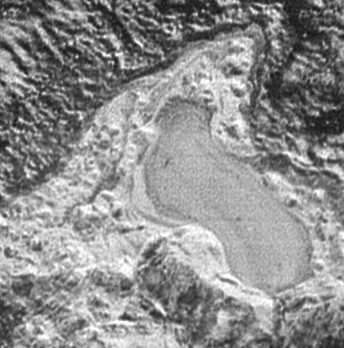 NASA’s New Horizons spacecraft spied several features on Pluto that offer evidence of a time millions or billions of years ago when – thanks to much higher pressure in Pluto’s atmosphere and warmer conditions on the surface – liquids might have flowed across and pooled on the surface of the distant world. This feature appears to be a frozen, former lake of liquid nitrogen, located in a mountain range just north of Pluto’s informally named Sputnik Planum. Captured by the New Horizons’ Long Range Reconnaissance Imager (LORRI) as the spacecraft flew past Pluto on July 14, 2015, the image shows details as small as about 430 feet (130 meters). At its widest point the possible lake appears to be about 20 miles (30 kilometers) across.